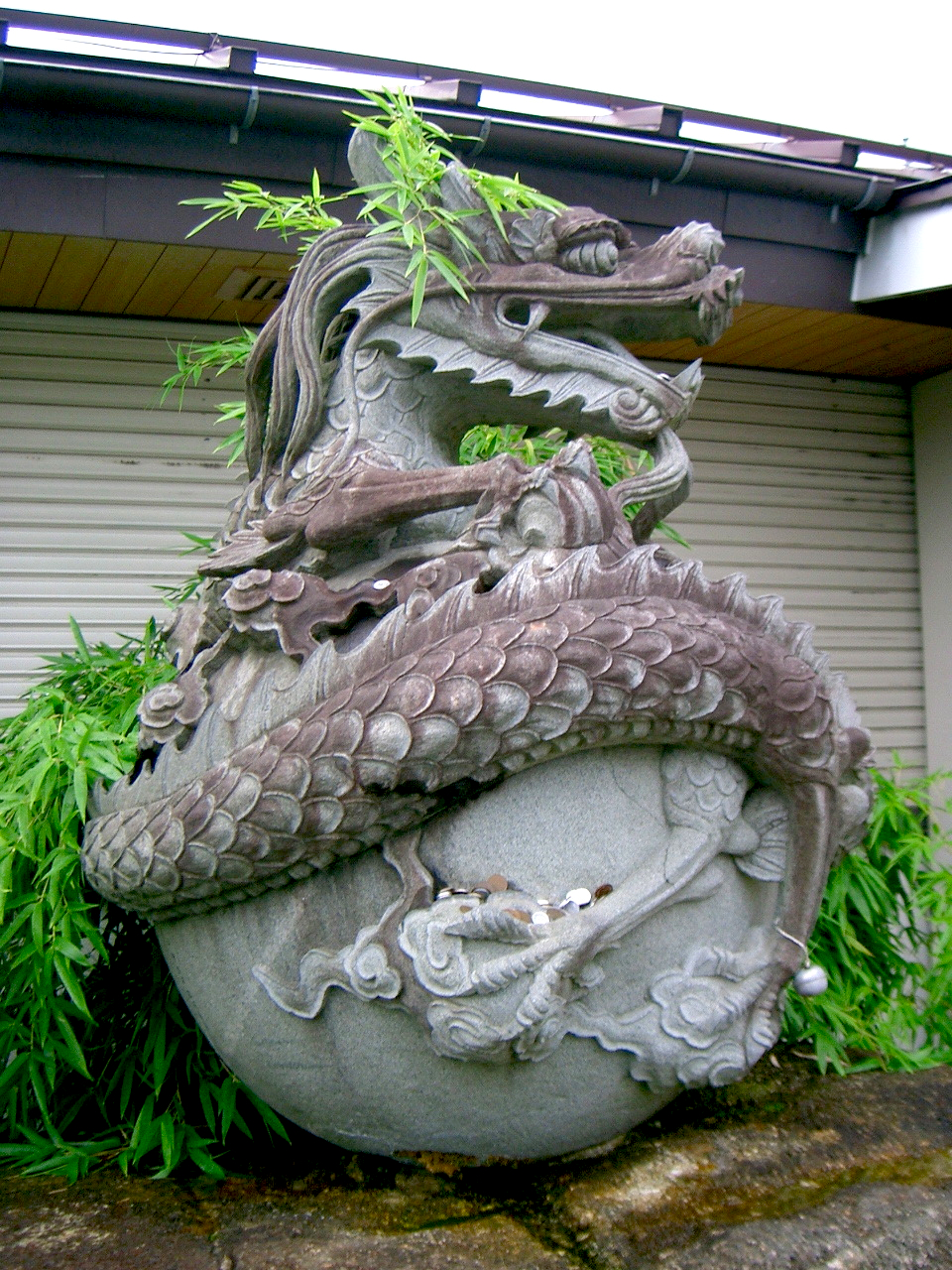 Sean Wilson, Japanese Dragon , 2005